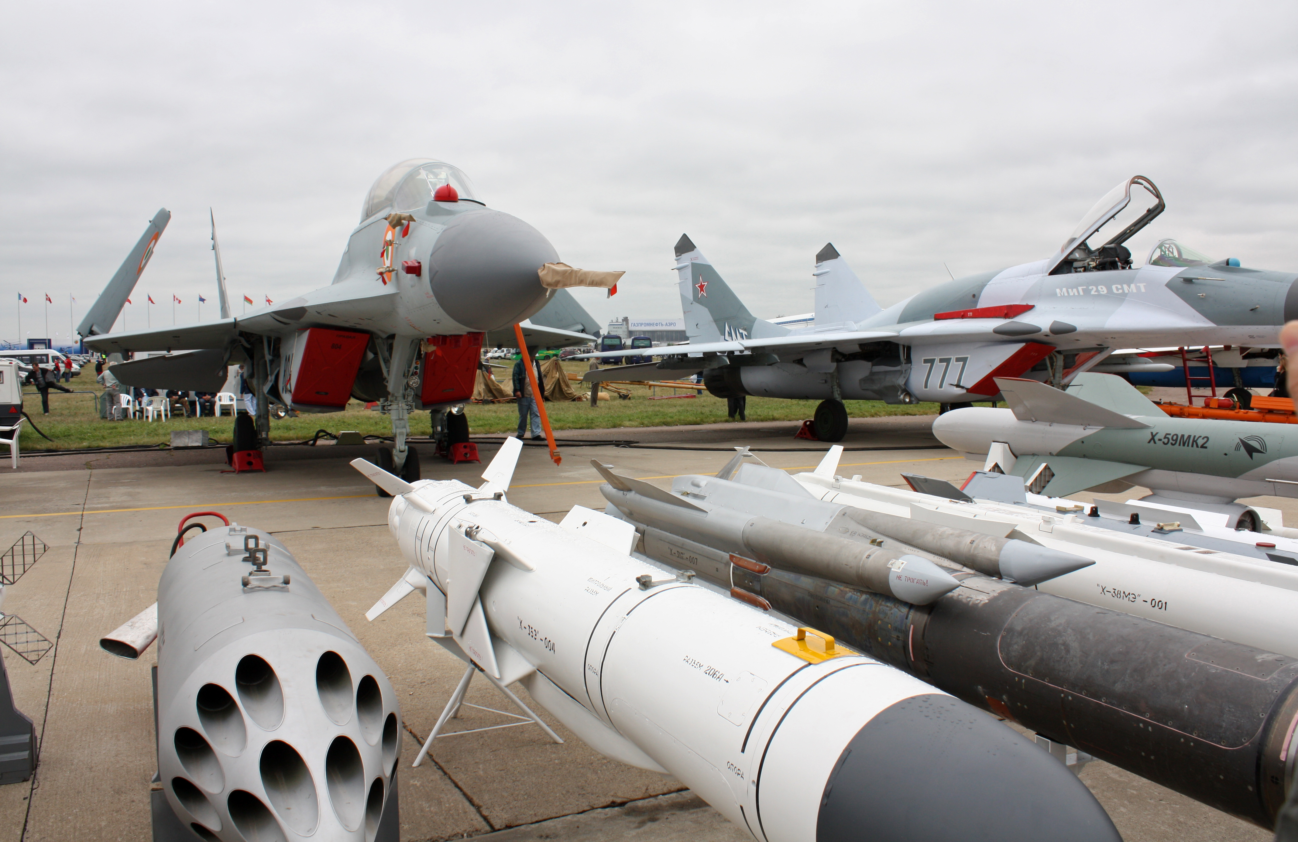 Mikoyan-i-Gurevich MiG-29K (The international aerospace salon MAKS-2009). On a distance shot - MiG-29SMT